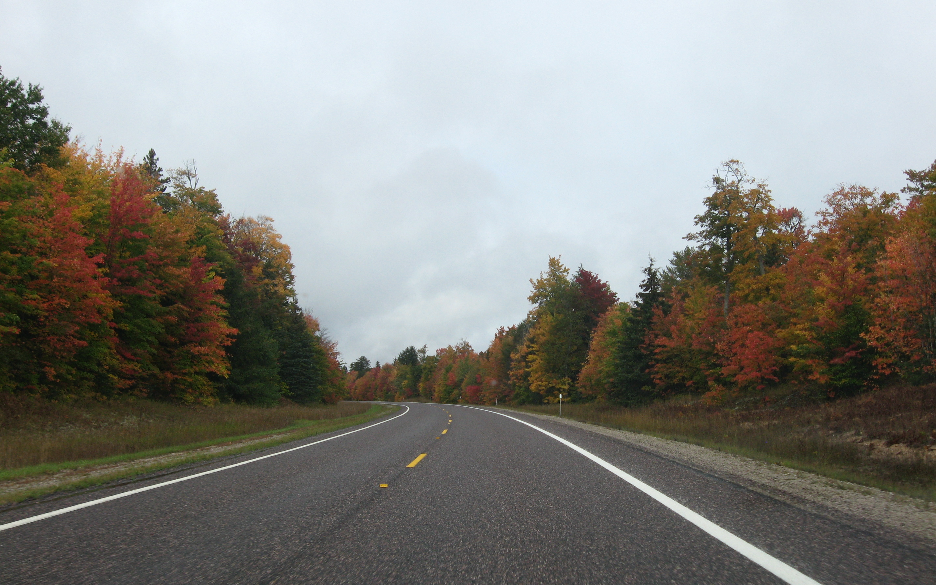 M-77 heading north towards Grand Marais, Michgian during fall 2008